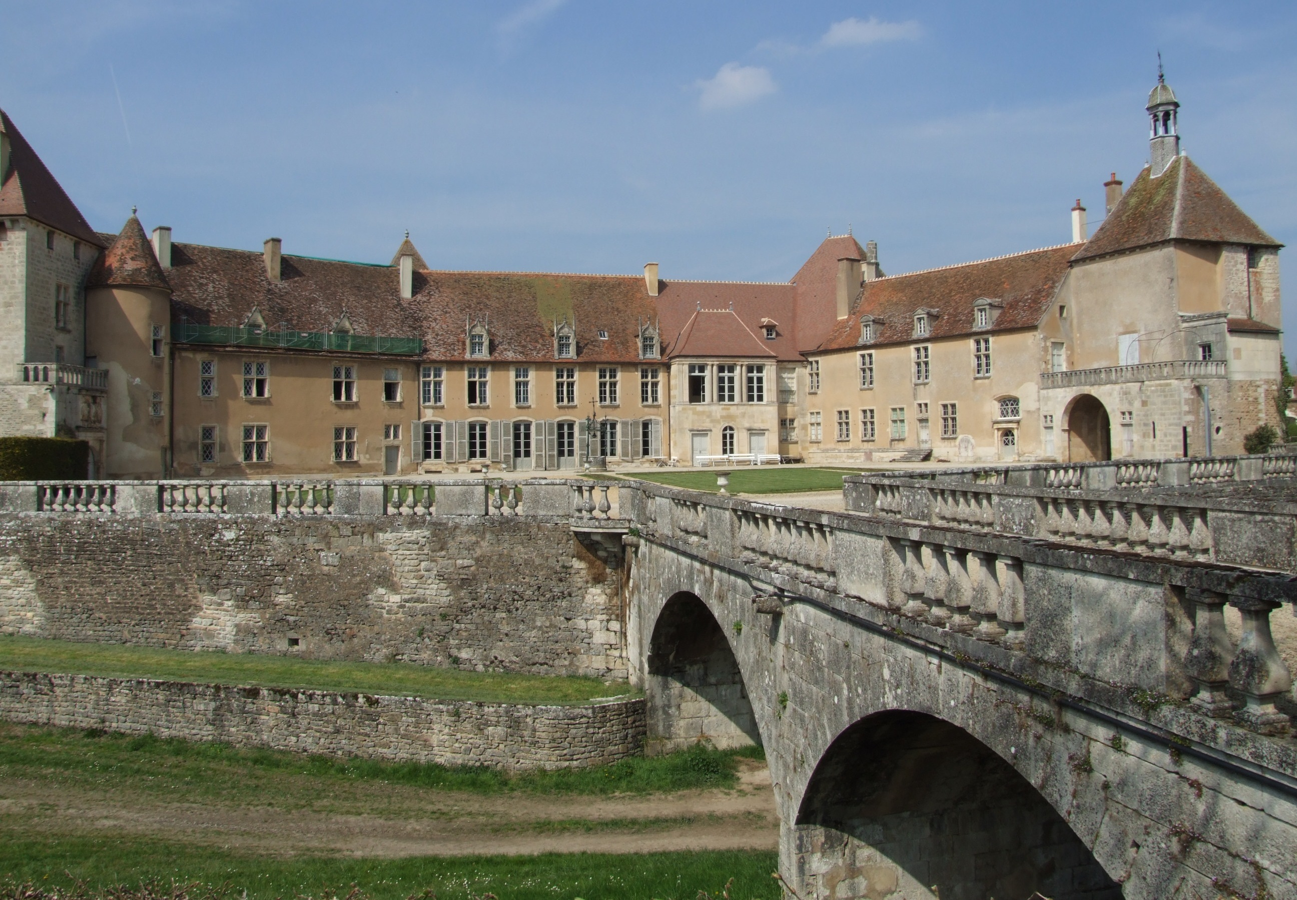 Epoisses castle, Burgundy, FRANCE